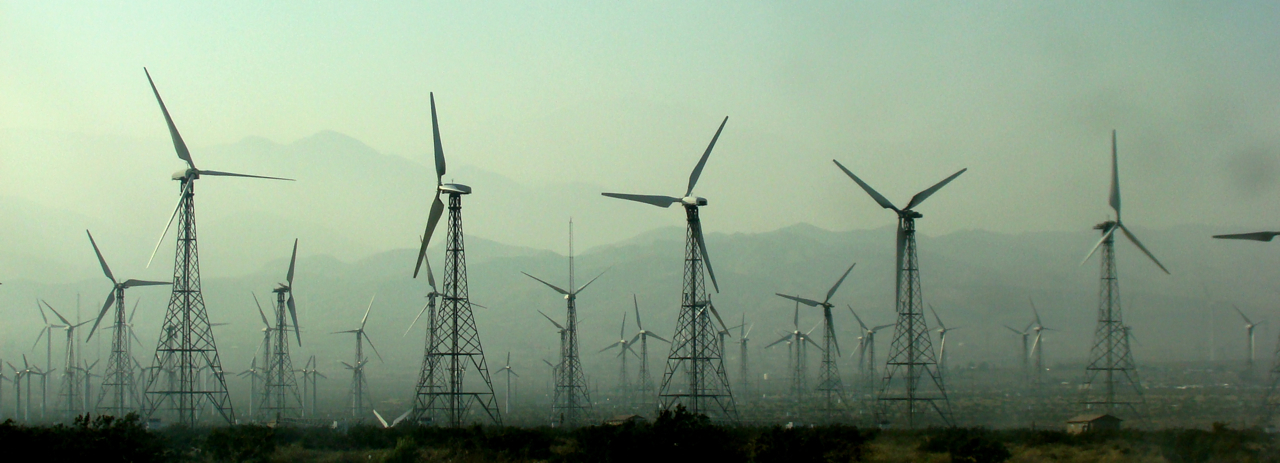 San Gorgonio Pass wind power plants